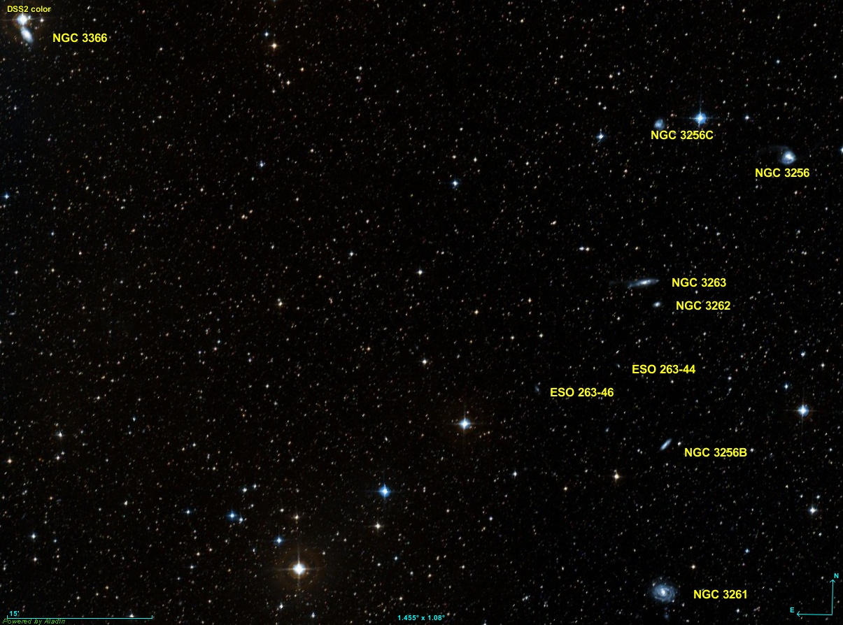 "Image created using the Aladin Sky Atlas software from the Strasbourg Astronomical Data Center and DSS (Digitized Sky Survey) data. DSS is one of the programs of STScI (Space Telescope Science Institute) whose files are in the public domain " This image is not a DSS's image!